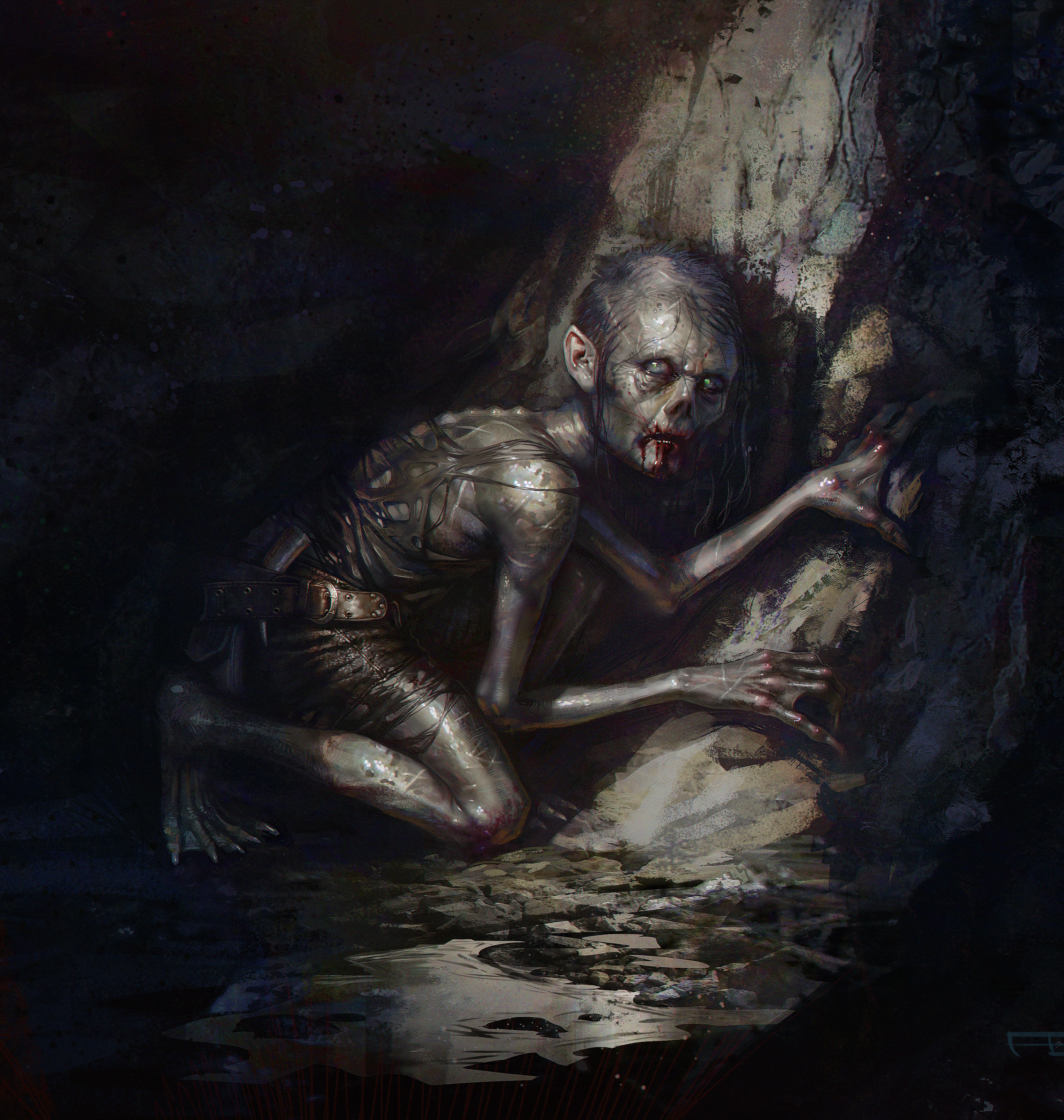 Gollum's journey commences by Frédéric Bennett